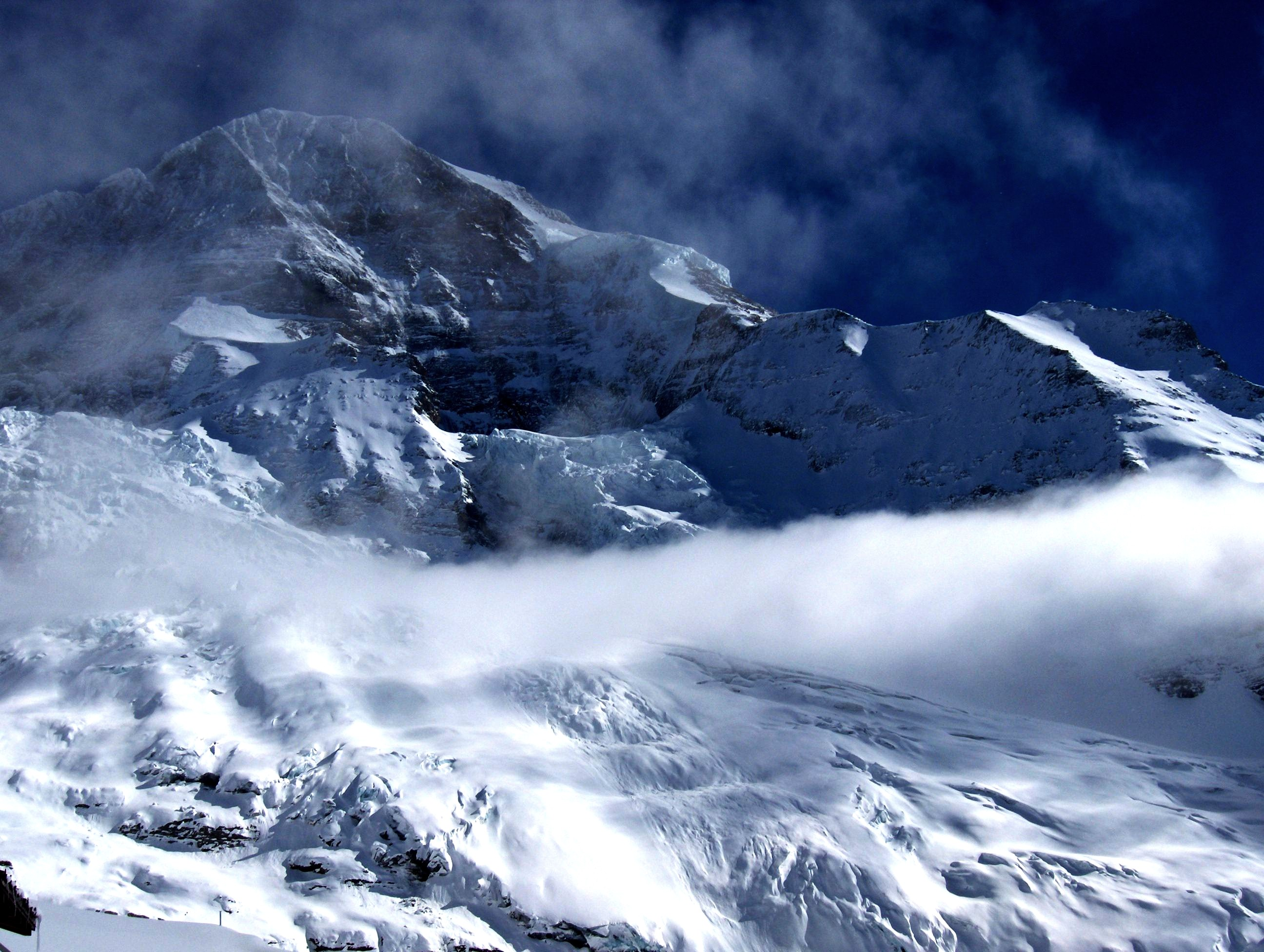 Mönch north wall, Bernese Alps